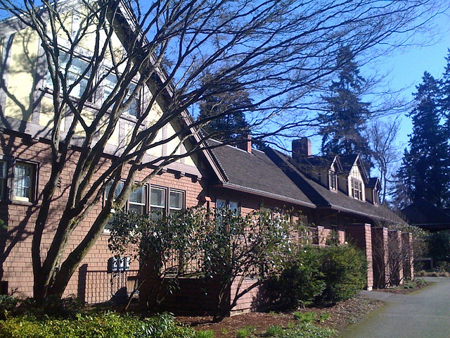 Clise Mansion, Marymoor Park, Redmond, Washington